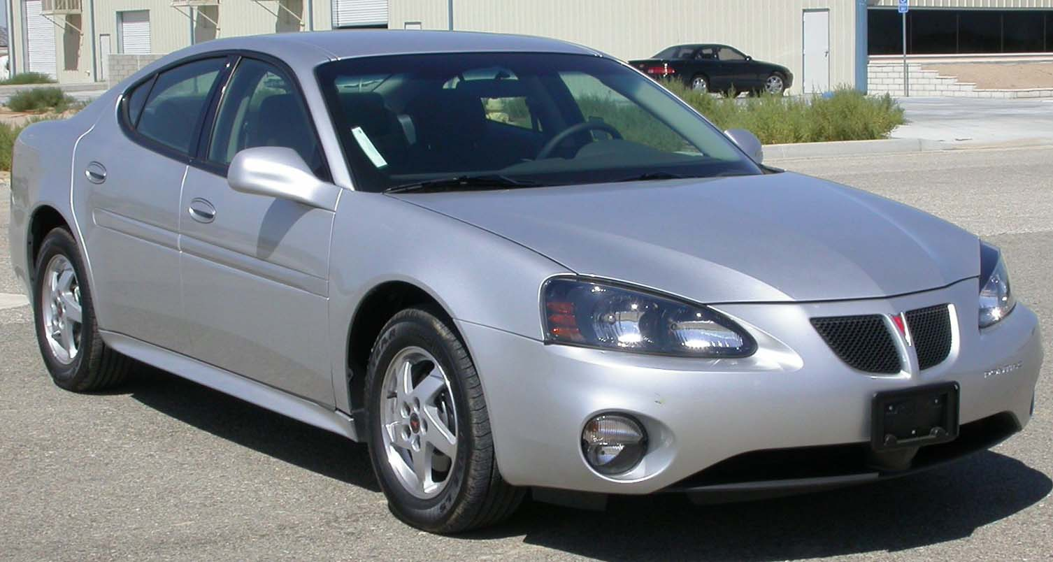 2004 Pontiac Grand Prix photographed in USA.